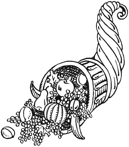 b/w line drawing of a cornucopia